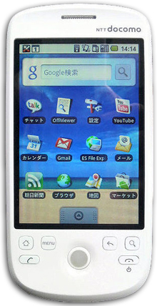 NTT docomo HT-03A smartphone running the Android 1.6 Donut software stack